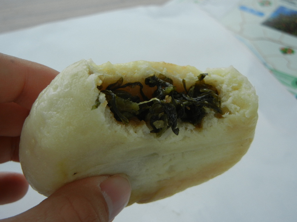 Nozawana-Oyaki-Nagano. 長野県の郷土料理「おやき」。具は野沢菜。, Nagano.